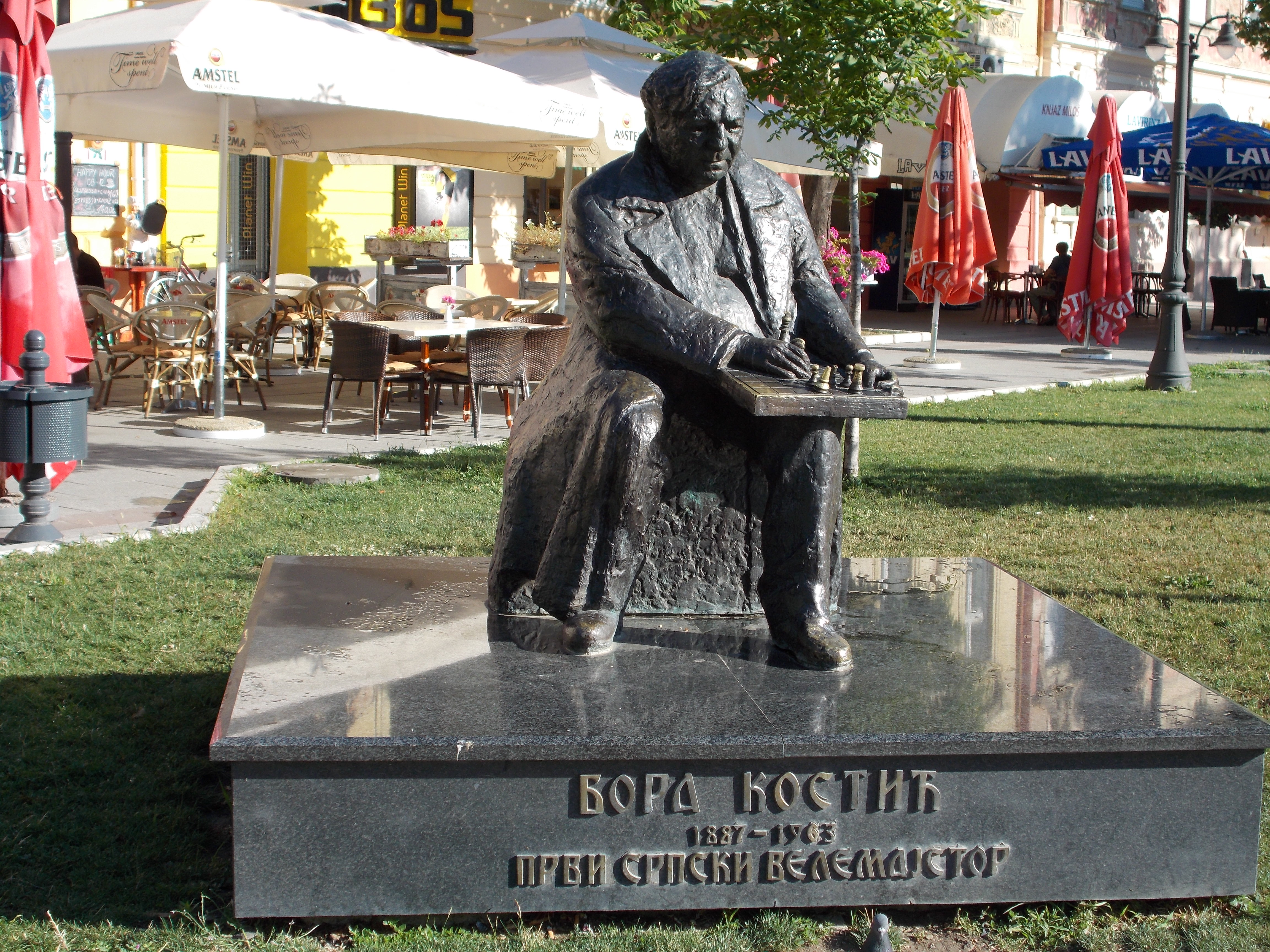 Monument to Bori Kostich, а professional chess grandmaster, in Vrshac.